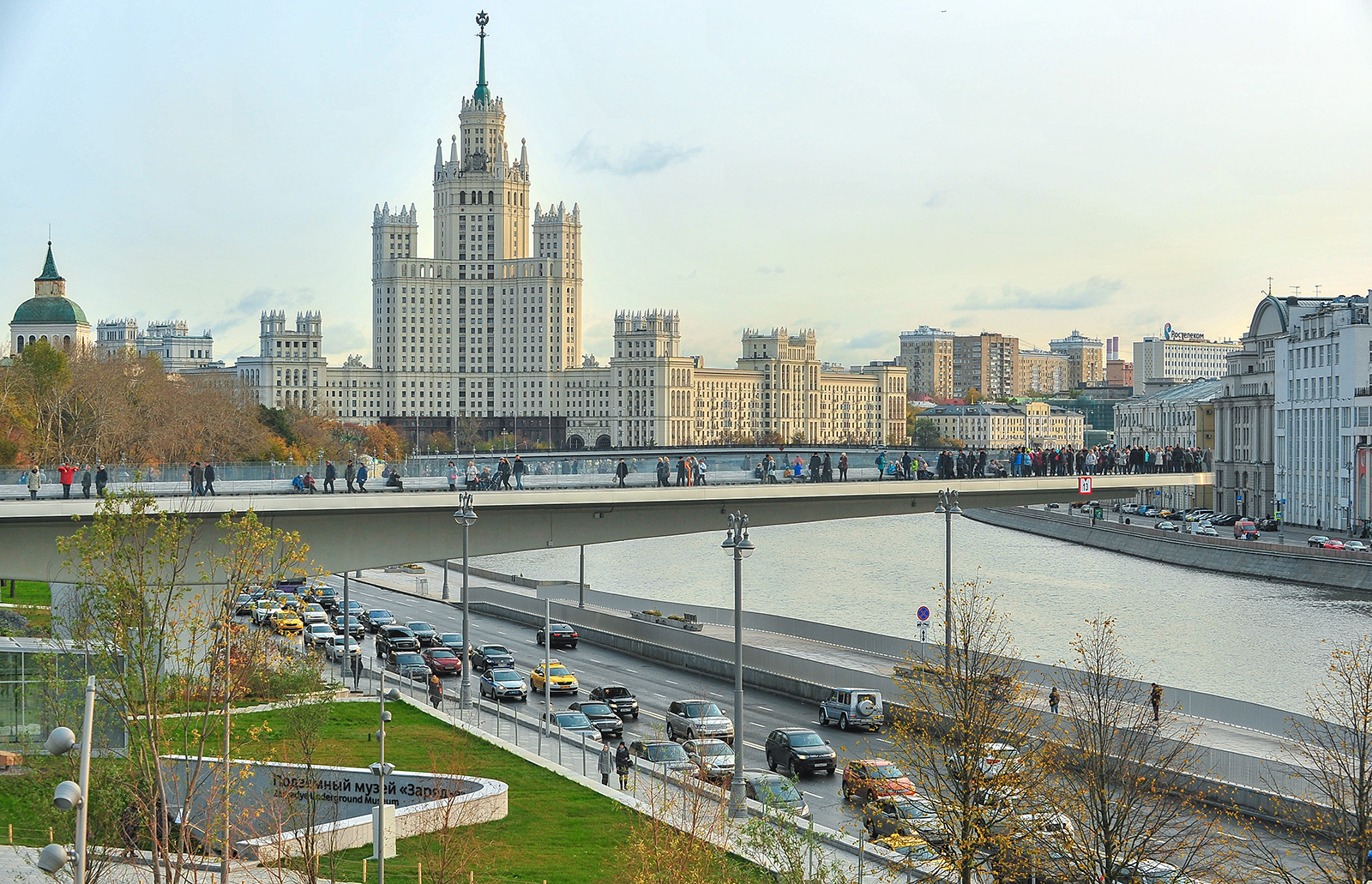 Park Zaryadye in Moscow